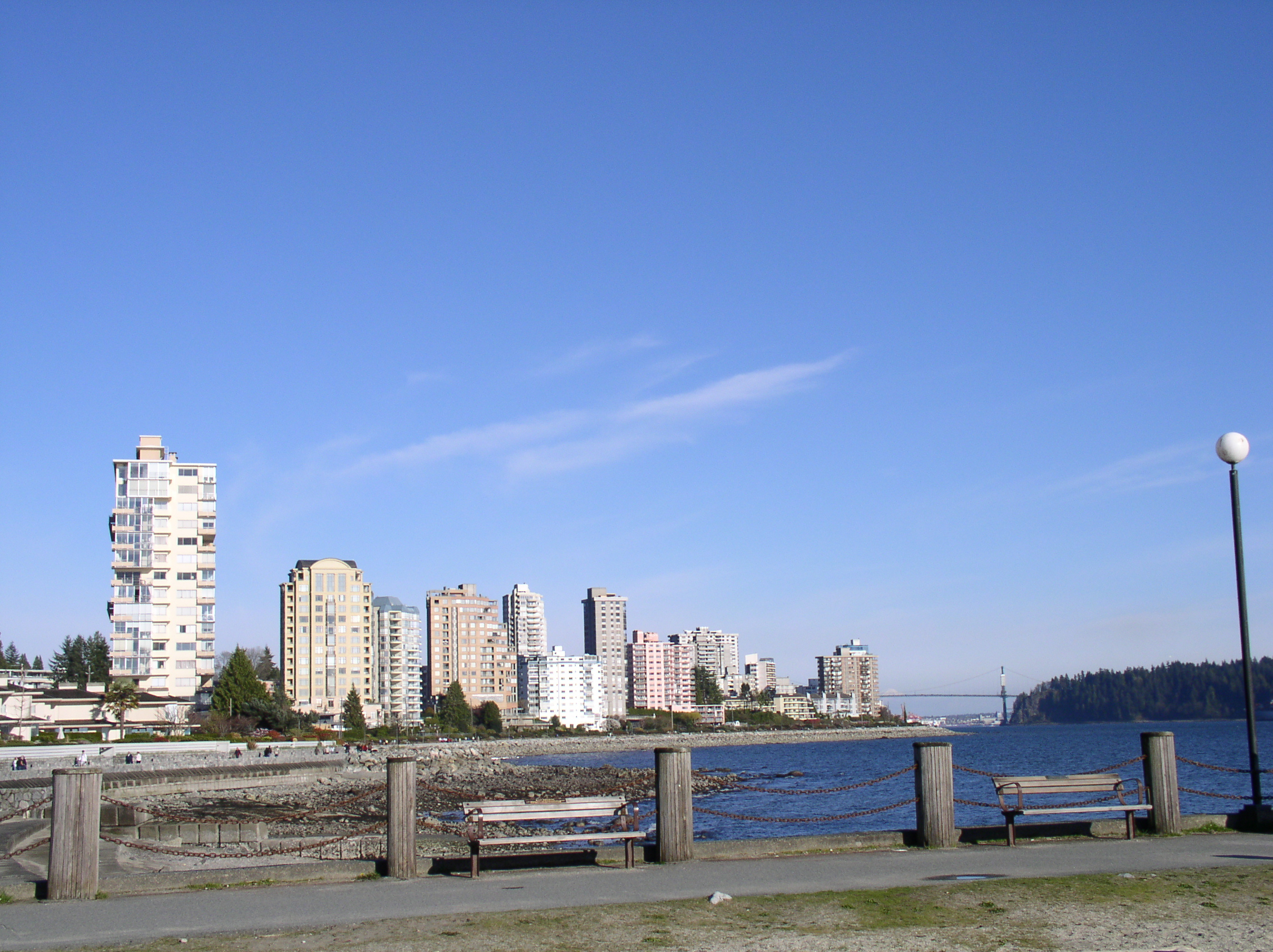 West Vancouver apartment buildings